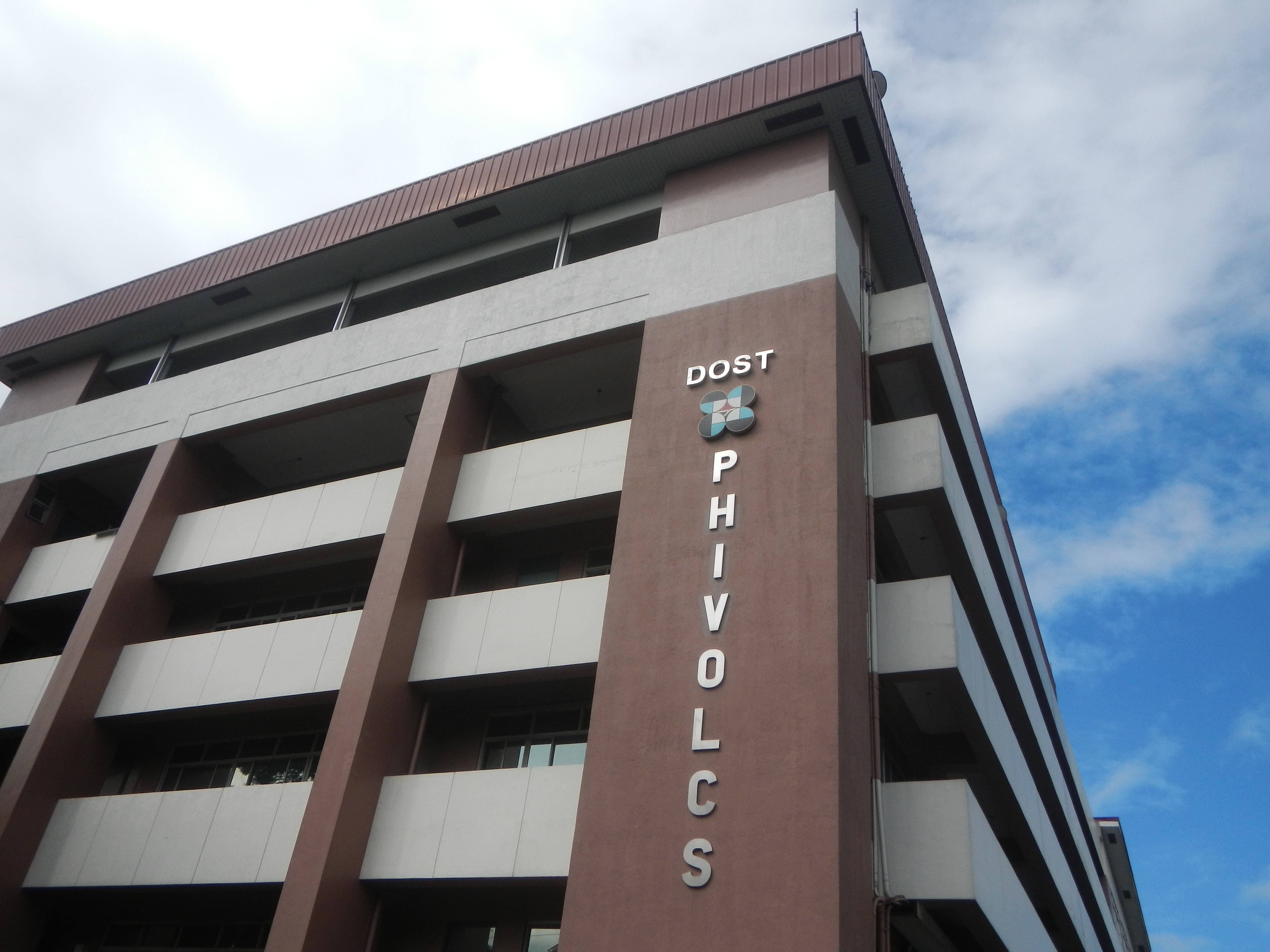 University of the Philippines Open University Department of Science and Technology (Philippines) Department of Information and Communications Technology (Philippines) replacing the ablolished Commission on Information and Communications Technology (Philippines) beside the Philippine Institute of Volcanology and Seismology (PHIVOLCS) (Quezon City) 14°39'6"N 121°3'30"E Philippine Institute of Volcanology and Seismology from Commonwealth Avenue, Radial_Road 6, corner or towards University Avenue corner or beside C. P. Garcia Avenue, of the Carlos P. Garcia Avenue (C-5) Circumferential_Road_5 towards Katipunan Avenue List of roads in Metro Manila, Circumferential Road 5, from Quezon Avenue, and the landmark Elliptical Road; located in the List of barangays of Metro Manila, Legislative districts of Quezon City, Barangays of Quezon City Barangays San Vicente, beside U.P. Campus Old Capitol Site, featuring City Mall beside PhilCoa footbridge beside U.P. Village or Diliman, Matandang (Old) Balara, District III, and Pansol,Quezon City, District 4, Diliman, Quezon City from Quezon Avenue, and the landmark Elliptical Road) (Note: Judge Florentino Floro, the owner, to repeat, Donor Florentino Floro of all these photos hereby donate gratuitously, freely and unconditionally all these photos to and for Wikimedia Commons, exclusively, for public use of the public domain, and again without any condition whatsoever).